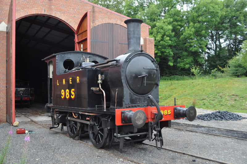 Beamish Museum, County Durham, England. This is Y7 68088, seen here at the western end of the Town railway, on the southern of the two sidings that enter a shed incorporated into the north side of the Waggon & Iron Works.